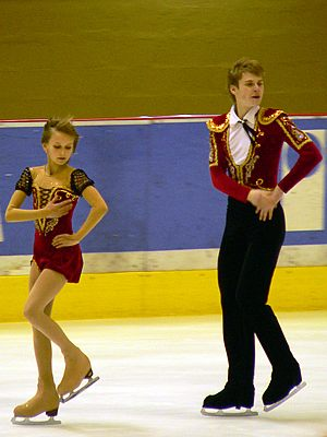 Ksenia Krasilnikova and Konstantin Bezmaternikh during their long program at the 2005 Junior Grand Prix event in Croatia